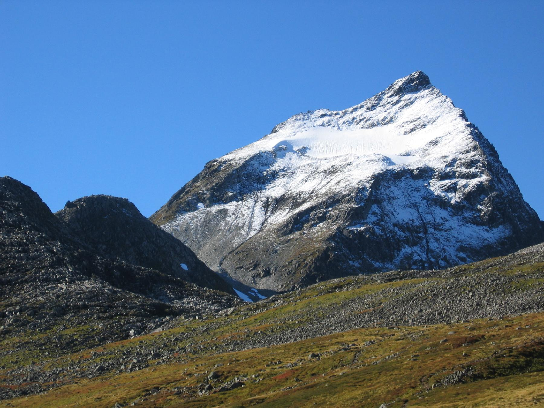 mountain Slogen against the sky.